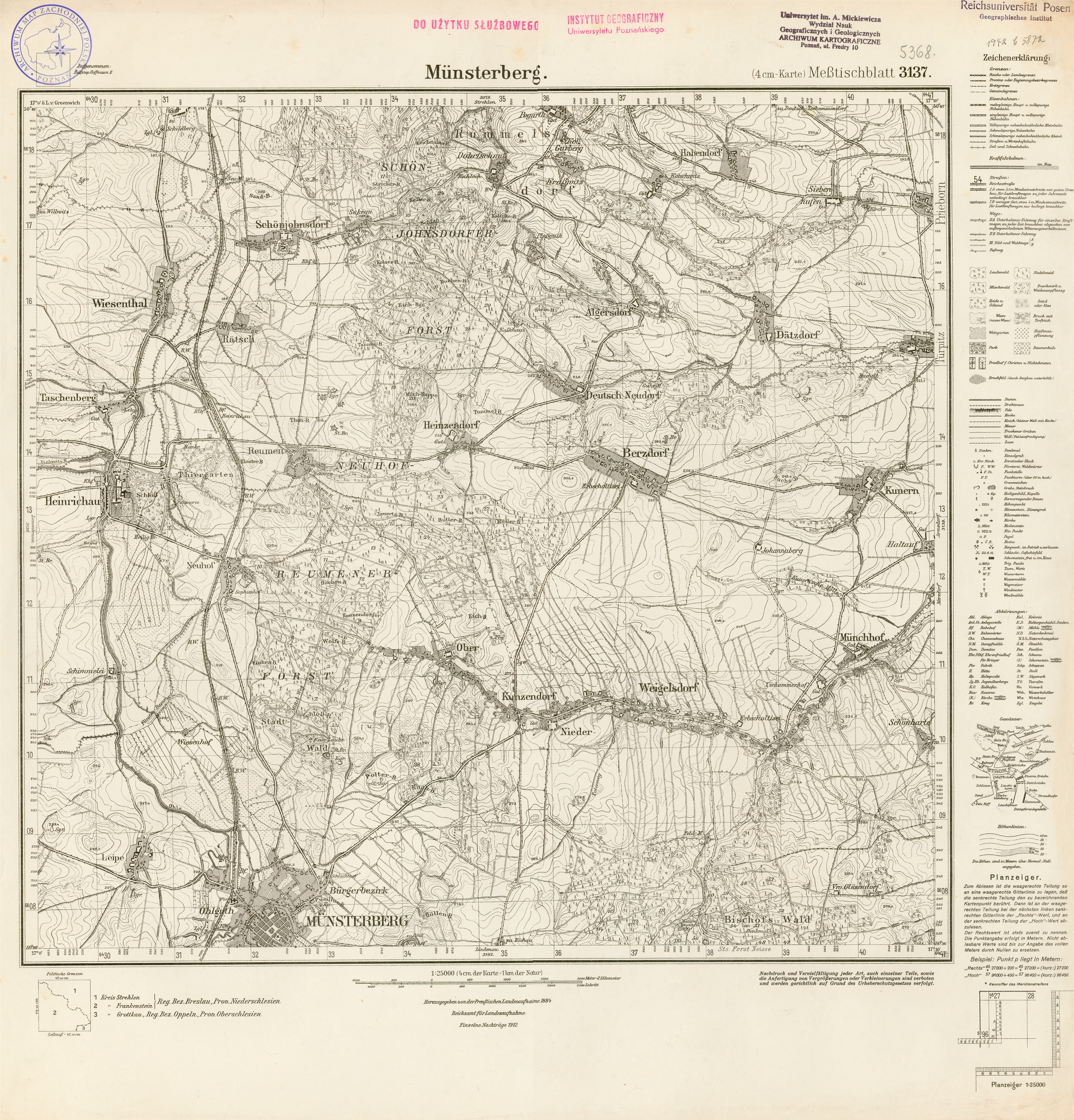 The picture/map has been publiced on internet by Its orgin is from The Prussian office of maps. (Herausgegebert von der Preussicher Landesaufnahme).